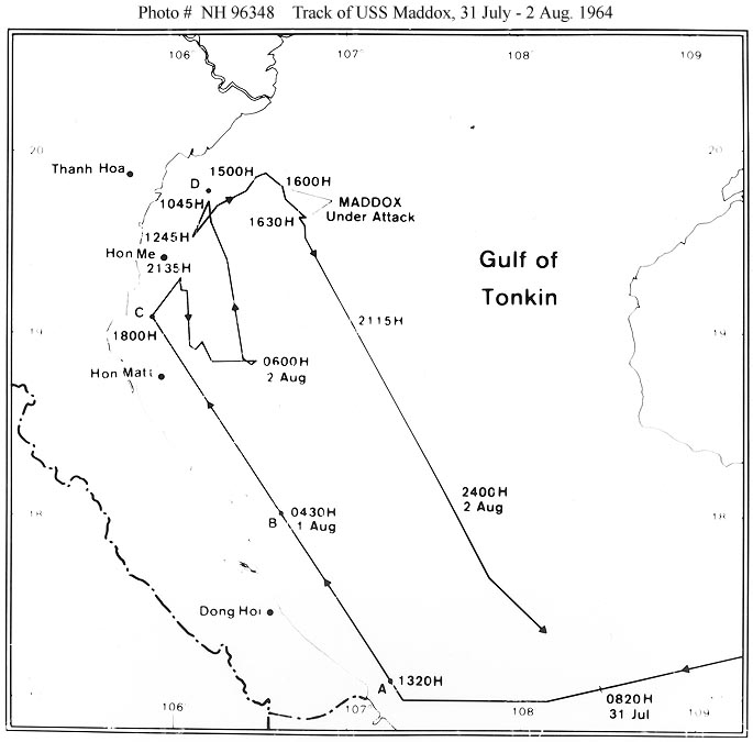 Chart showing the US Navy's interpretation of the events of the first part of the Gulf of Tonkin incident.